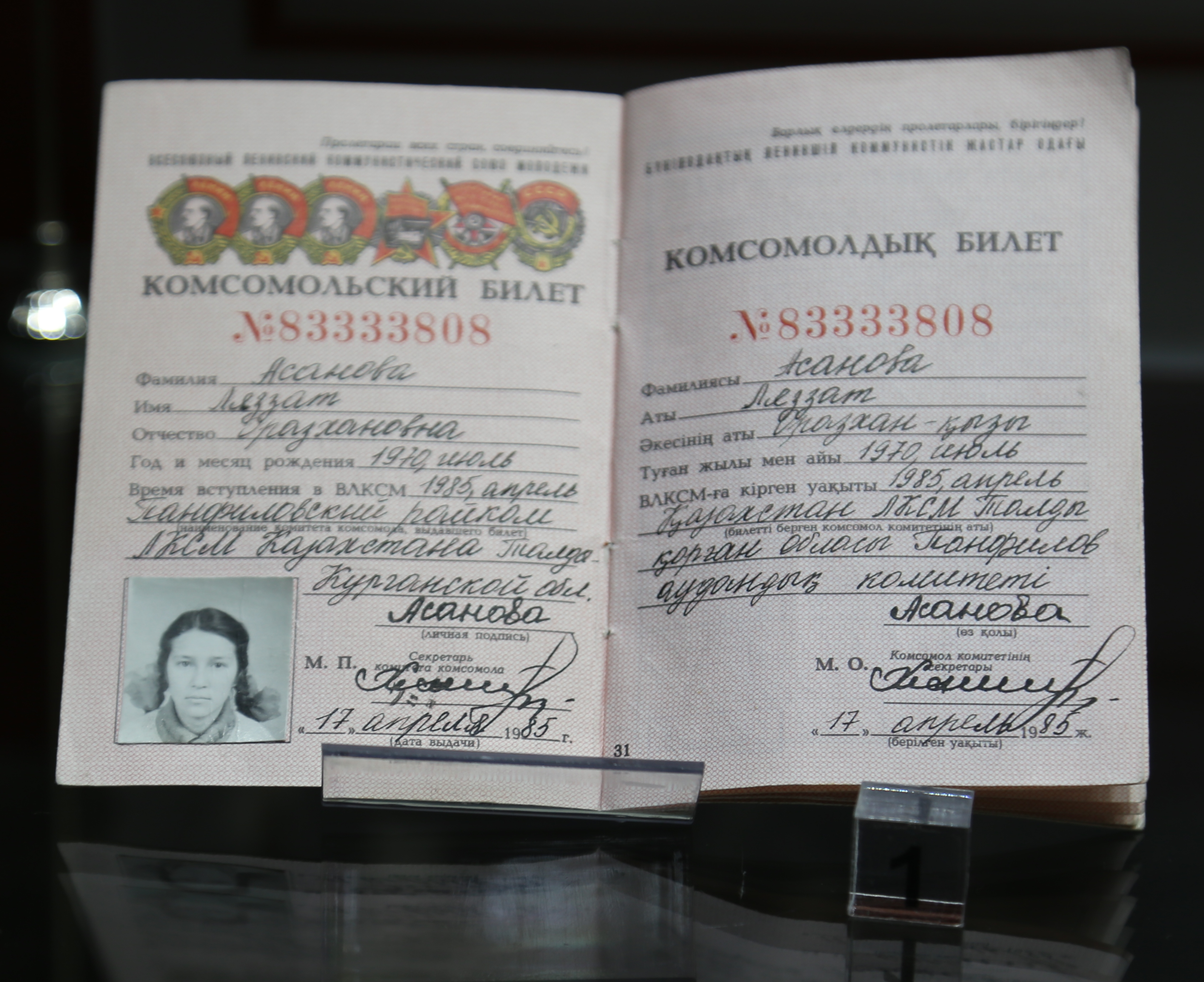 Lyazzat Asanova Komsomol Membership Card, 1985 (Almaty Museum)